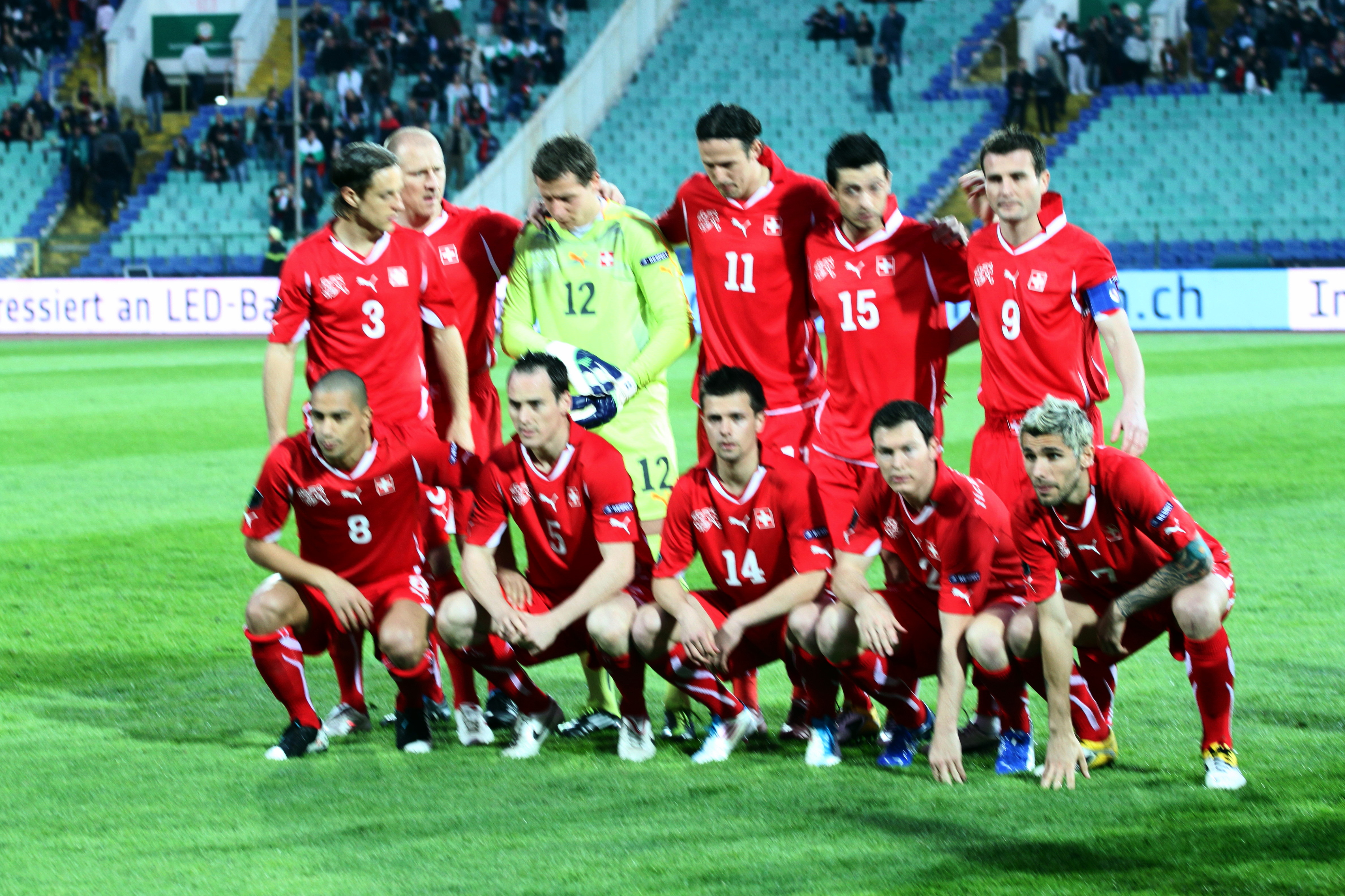 The Swiss national football team